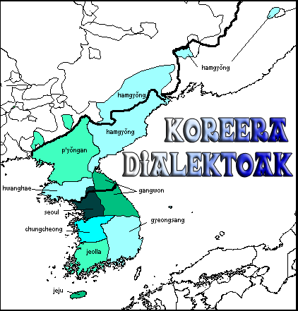 Dialects of corean language